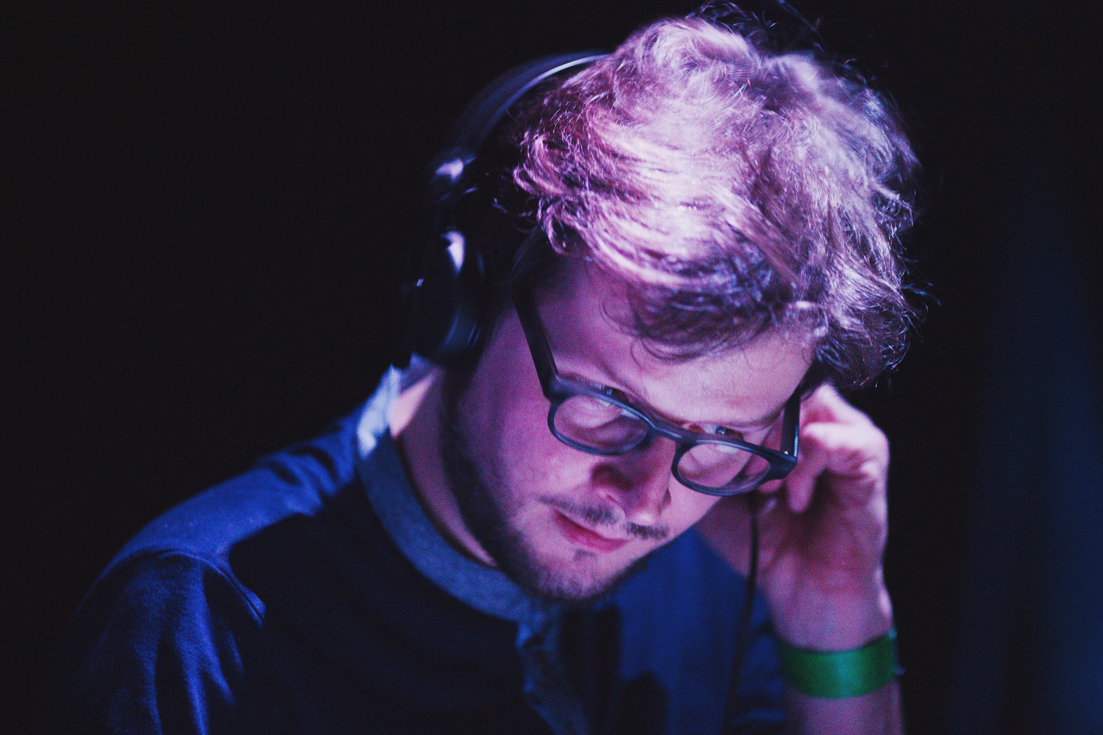 portrait